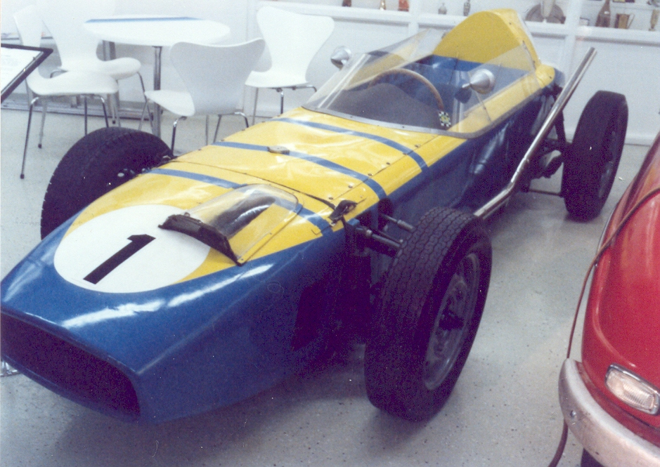 SAAB Formula Junior (del) (cur) 21:02, 17 April 2006 . . Ballista (Talk) . . 939x665 (366224 bytes) (my own photo)